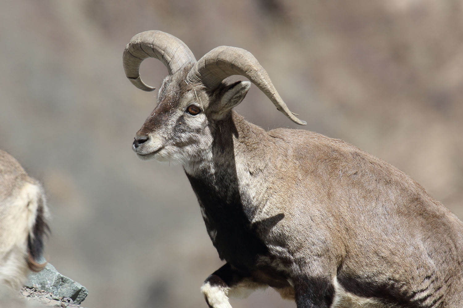 Bharal / Himalayan blue sheep / Pseudois nayaur Hemis National Park Ladakh (India)